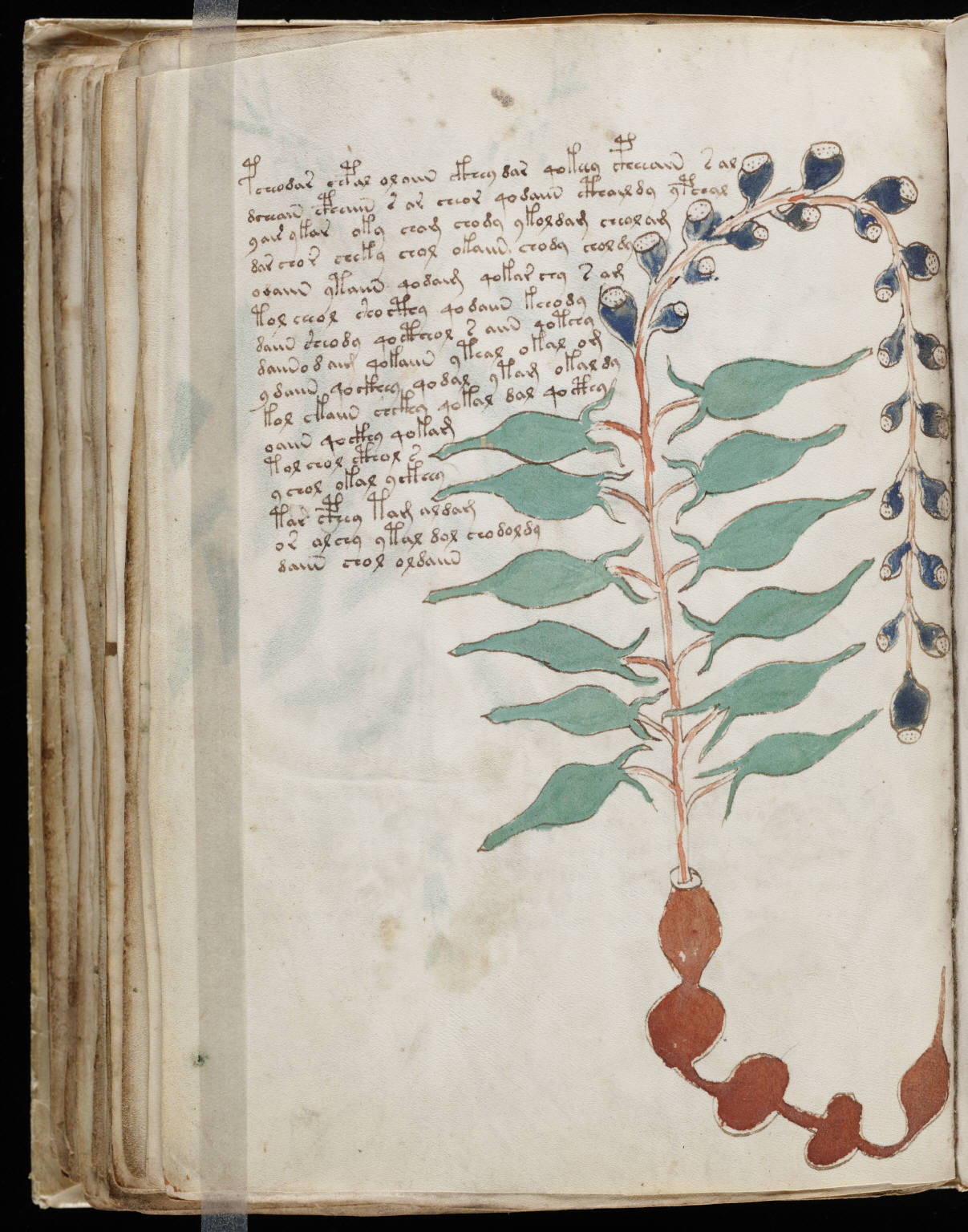 A page from the mysterious Voynich manuscript, which is undeciphered to this day.